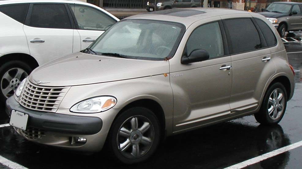 2001-2005 Chrysler PT Cruiser photographed in USA.